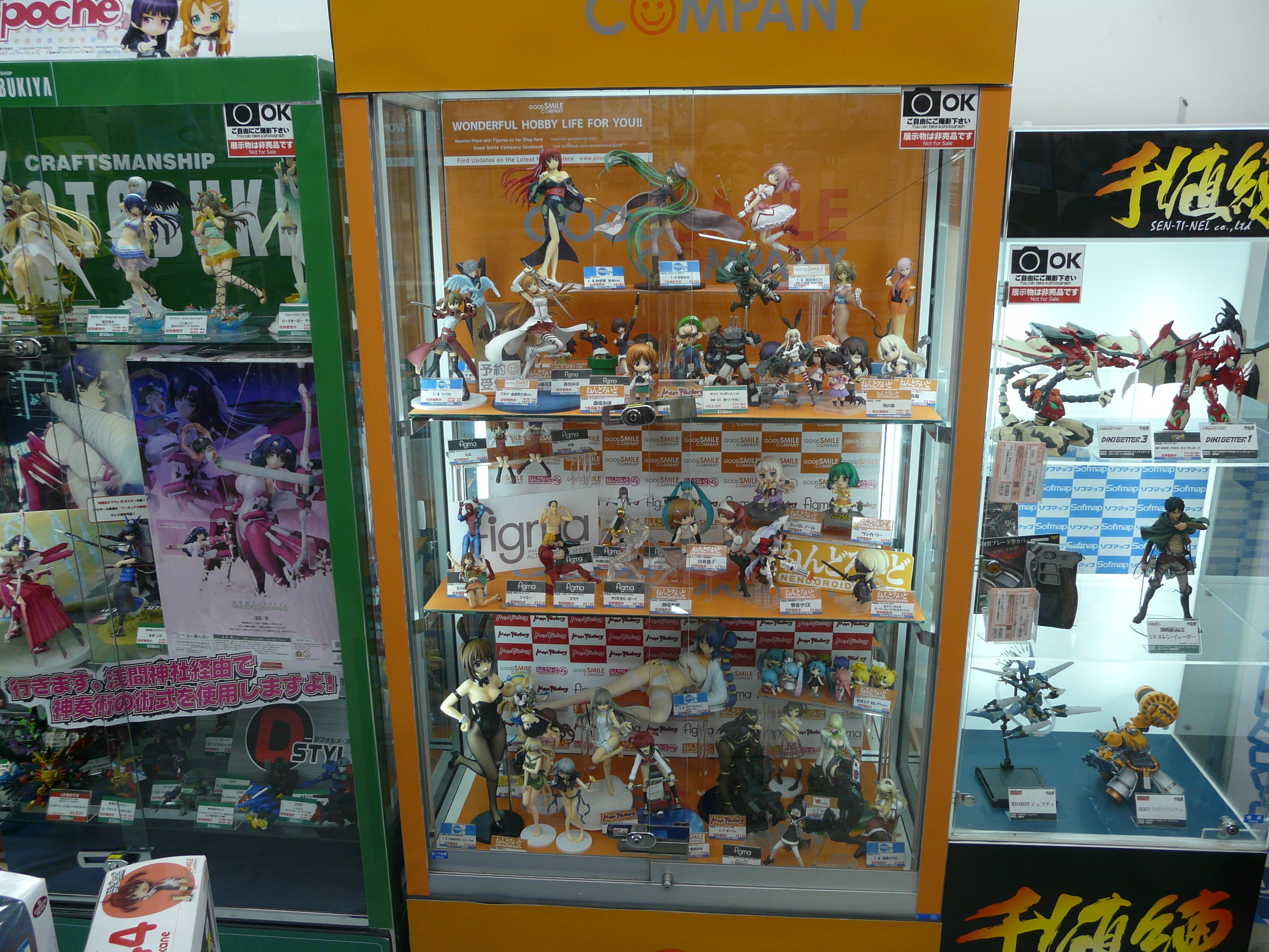 Display cabinets with toys, a common feature in many shops in Akihabara